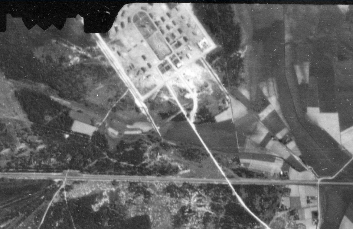 Salaspils nometnes aerofoto 1944.gadā.